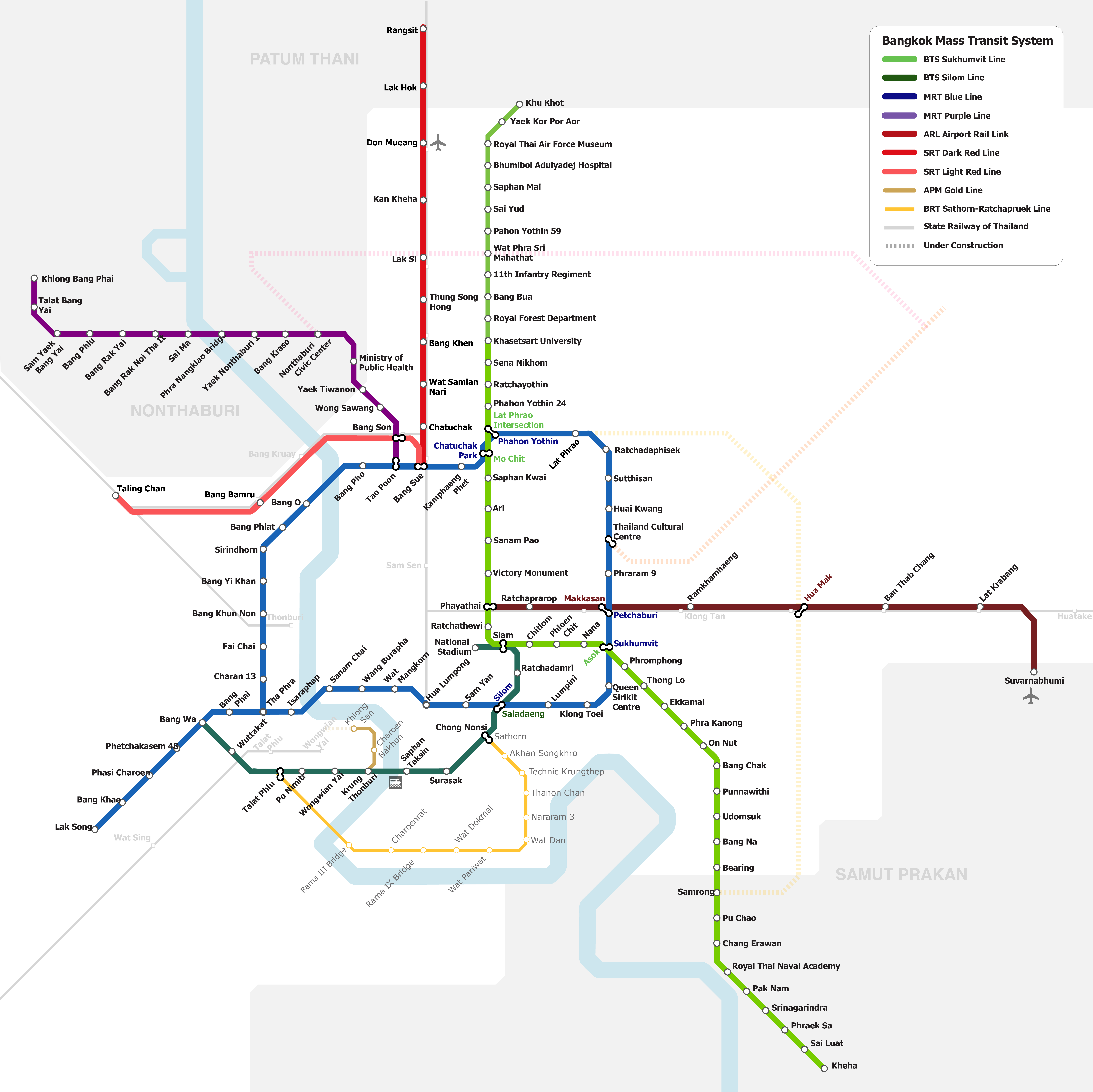 Updated to MRT blue line full loop as of current